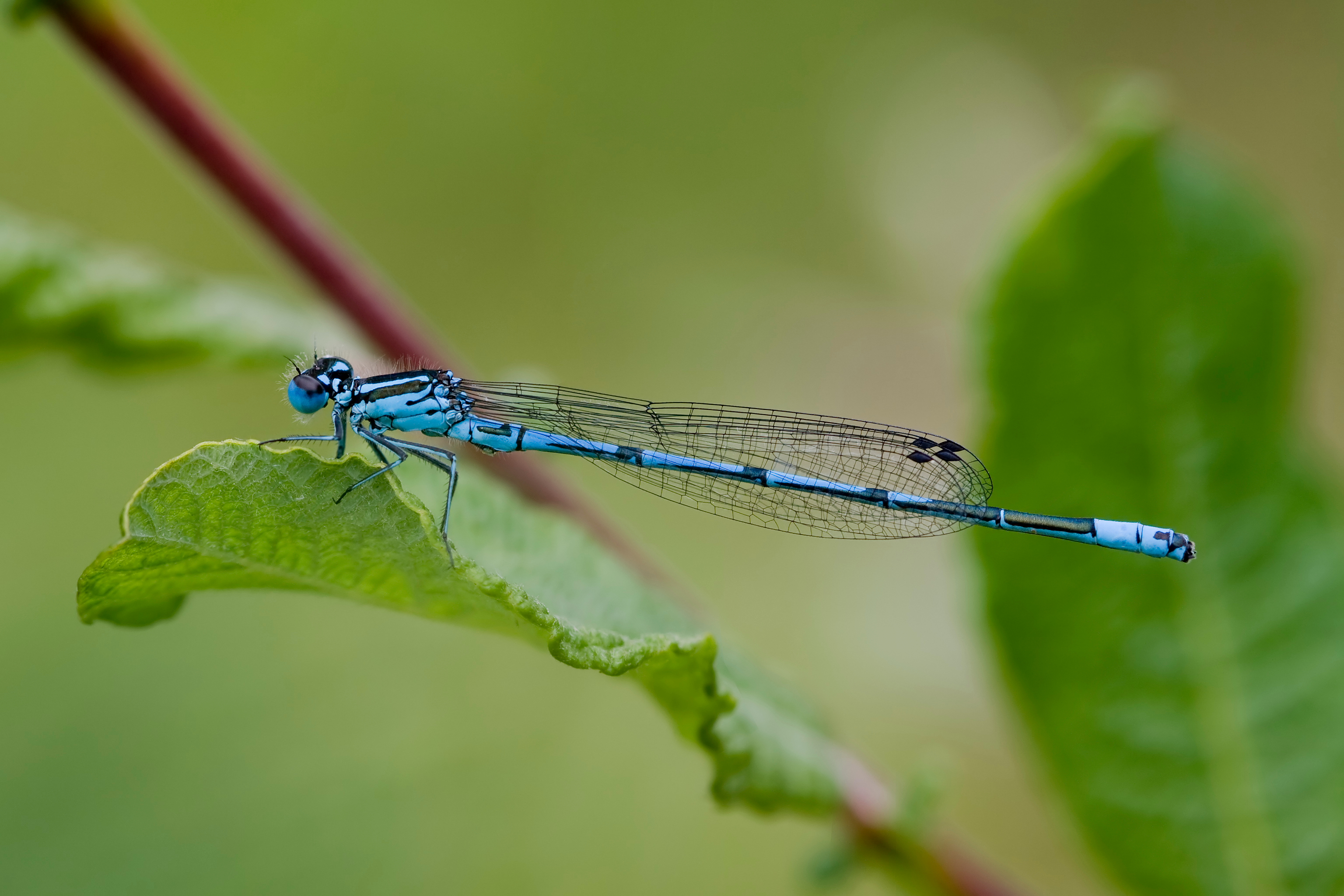 A male of the Azure Damselfly (Coenagrion puella) in the Ahlenmoor, a peatland in northern Lower Saxony, Germany.